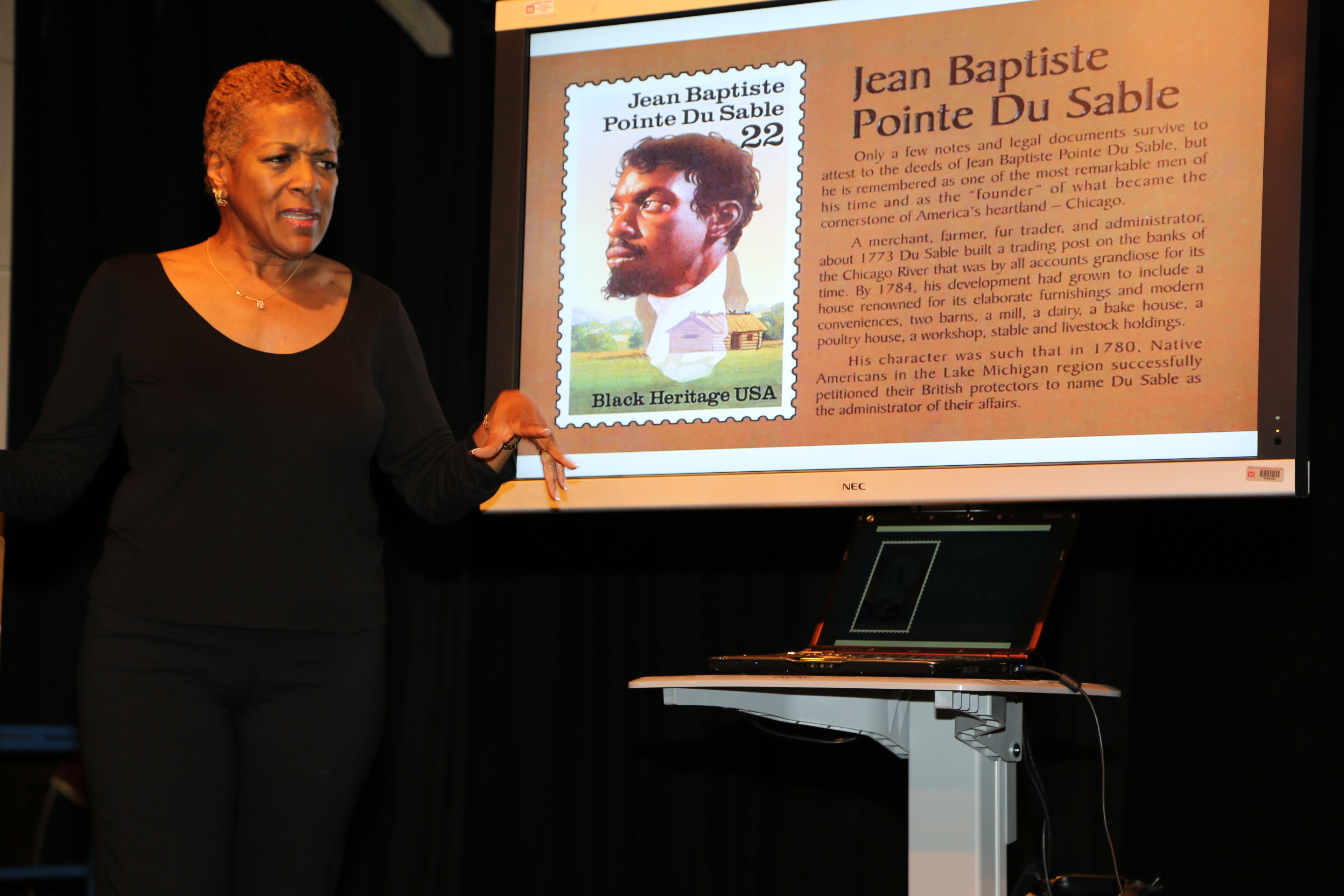 Europe District’s Special Emphasis Program Committee wrapped up its observance of Black History Month with a special celebration Feb. 26 at the Amelia Earhart Playhouse in Wiesbaden, Germany. The event featured guest speaker Ricki Stevenson, founder of Black Paris Tours. Her insight into the city’s African-American heritage is so in-depth that her presentation is often referred to as “The Real History of France,” organizers said. A potluck lunch was served after the program. Mia Burroughs-Grady, a Europe District budget analyst, coordinated the event for the Special Emphasis Program Committee. (U.S. Army Corps of Engineers photo by Brian Temple)